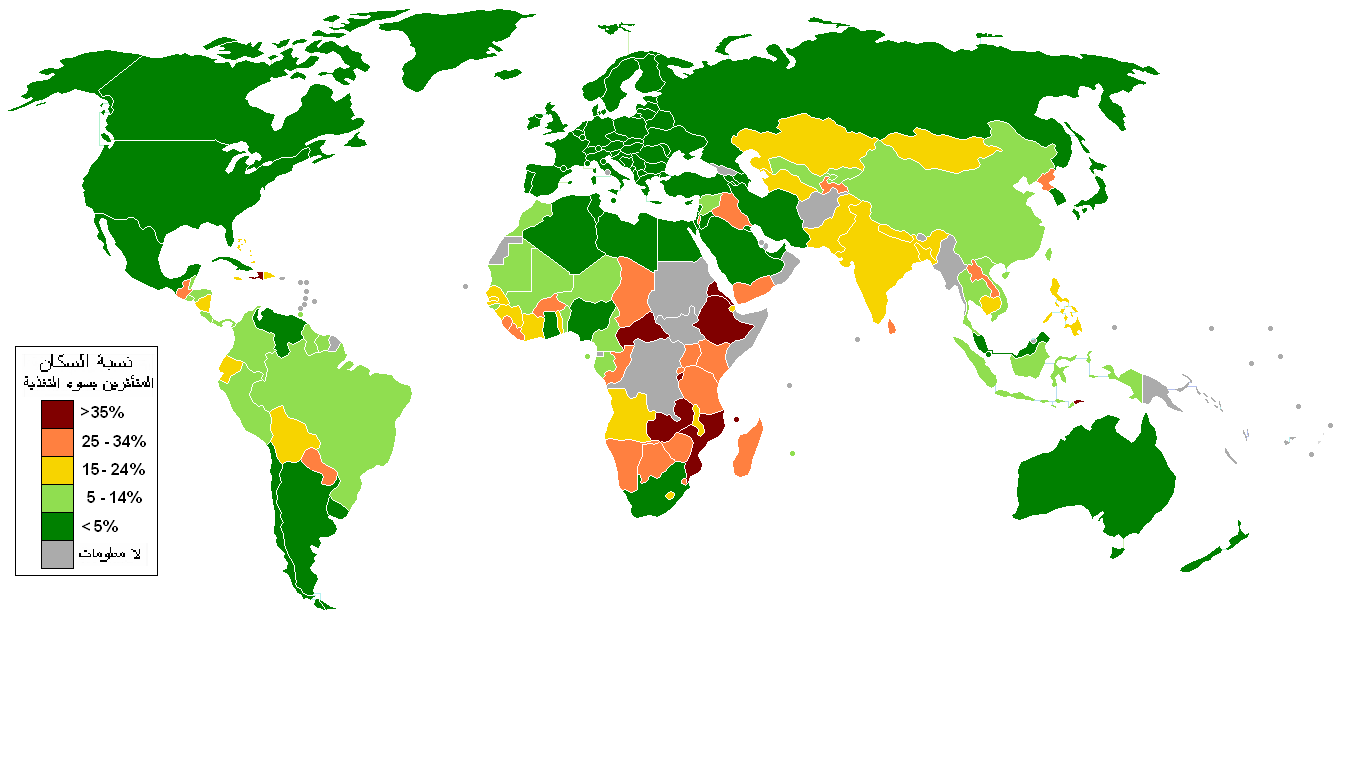 List of countries by percentage of population suffering from undernourishment. Made by User:Lobizón, using Wikipedia's "map of the world" template, and information from the United Nations World Food Programme and the FAO "The State of Food Insecurity in the World 2006" report. Sources: United Nations World Food Programme's interactive "hunger map": FAO: The State of Food Insecurity in the World 2006: When the two sources contradicted each other, the FAO report was given priority, as it is the one with the most recent data. (2001-2003)